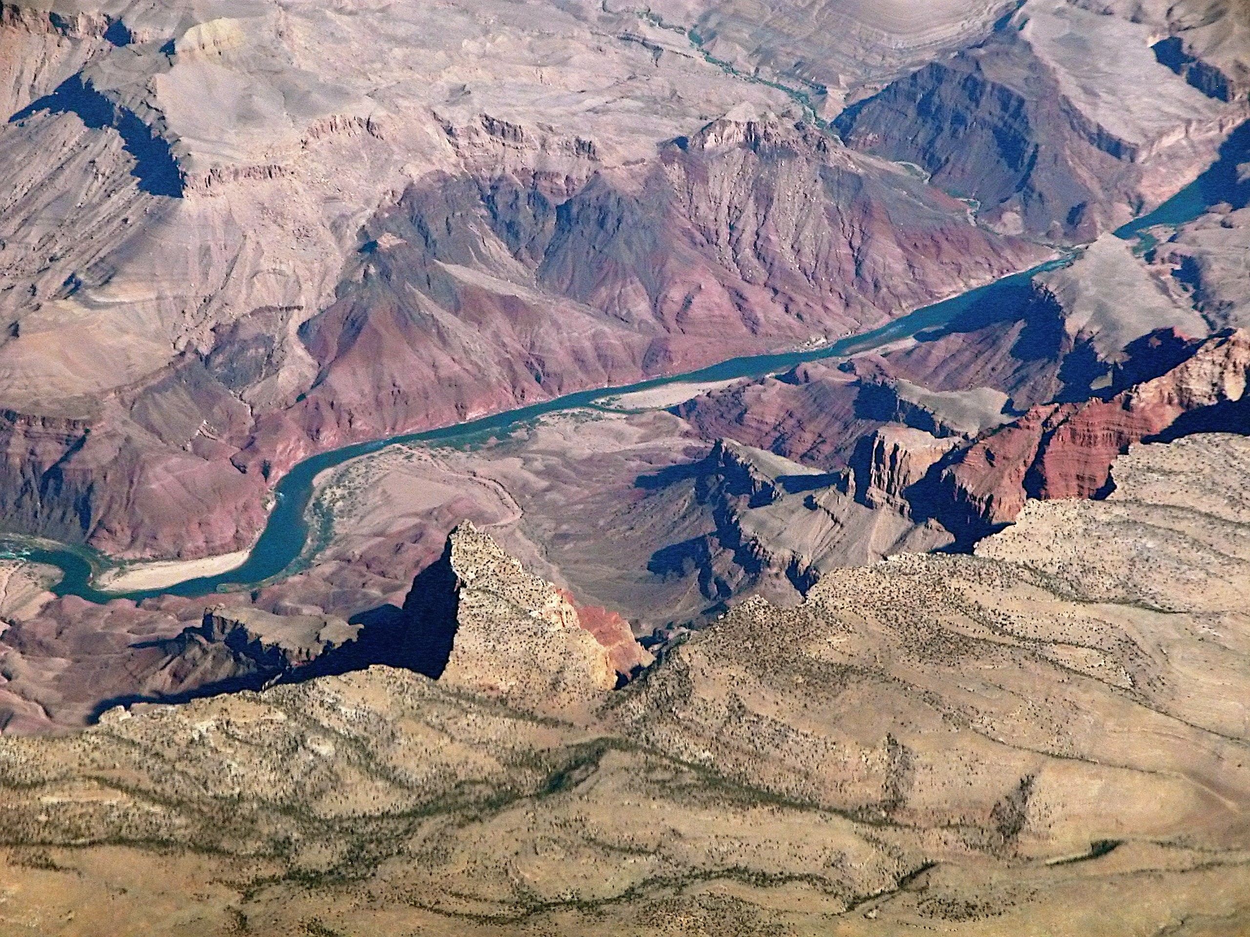 Comanche Point, on the South Rim of the Grand Canyon, above the Colorado River. (about a 4.0 mile stretch of river)--Tanner Rapid-Mile 68.5, left (from Tanner Canyon), and Lava Creek (from North Rim), Mile 65.5 (aerial view)-Comanche Point, on the point-extension, & adjacent northeast is a view of the prominences of Espejo Butte; the outfall regions of Tanner Creek & Comanche Creek, can be seen on the Colorado.